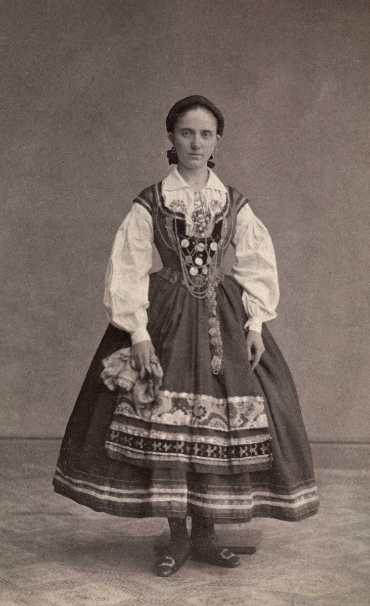 Amalie Døvle in a folk costume, photography.